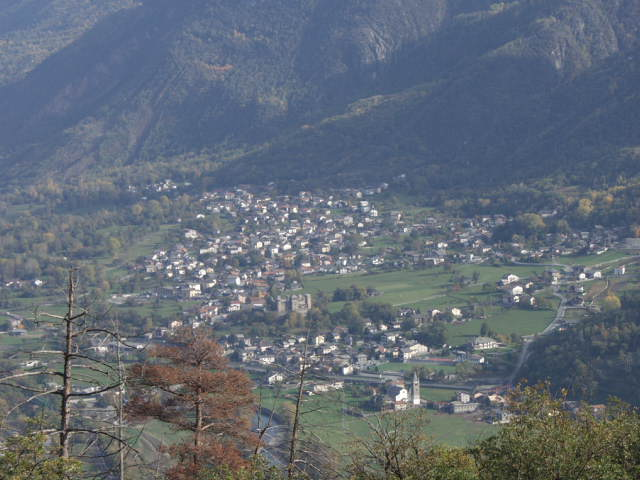 Overview of Fénis (Aosta Valley, Italy)